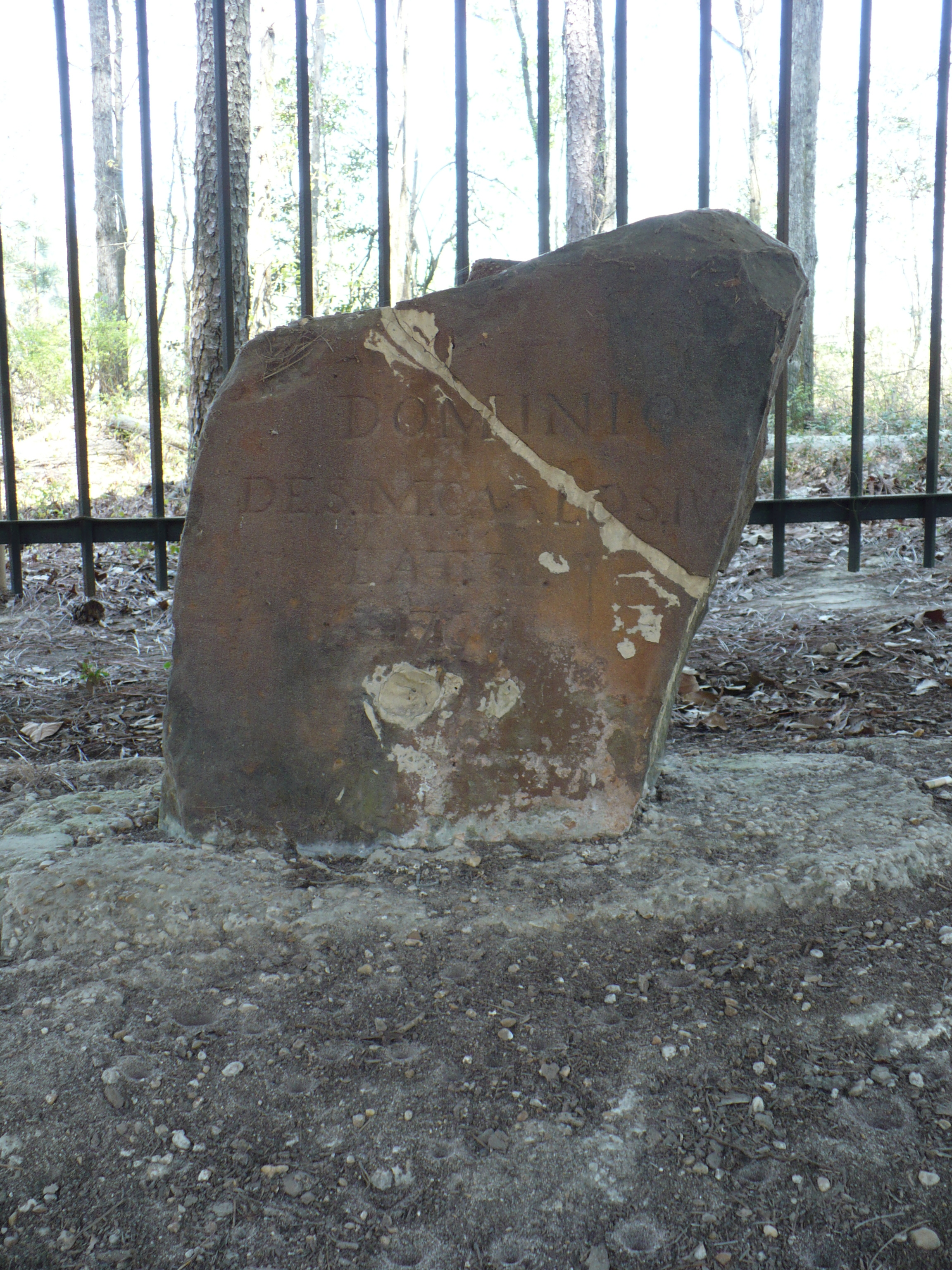 Ellicott's Stone at Bucks, Alabama, United States. This boundary marker was placed on April 10, 1799 by a joint U.S.-Spanish survey party, headed by Andrew Ellicott, on the border between the United States and Spanish West Florida. It was added to the National Register of Historic Places on 11 April 1973. This side (south) reads